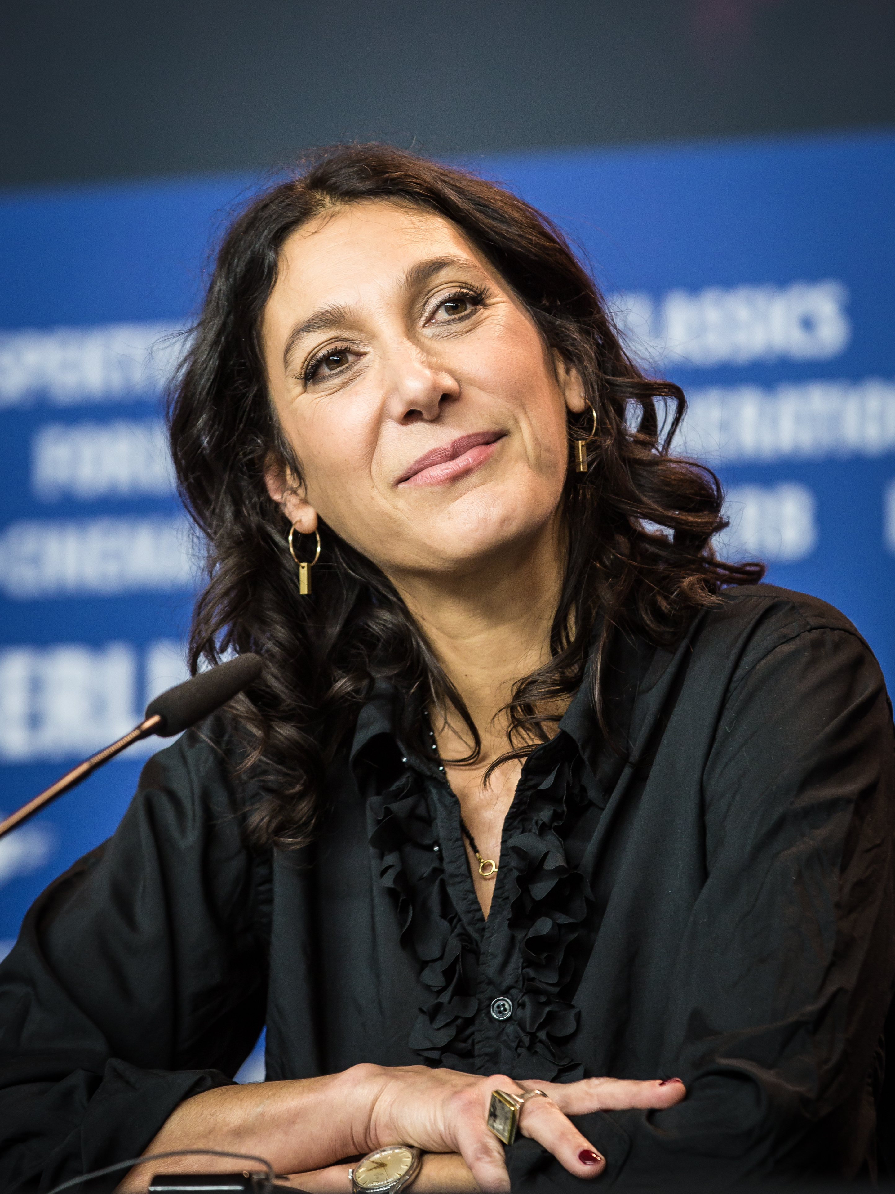 Movie director Emily Atef at the Berlinale 2018